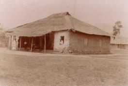 Shows the first house (used also as chapel) of father Clemente Vismara — at Mong Lin (Myanmar)